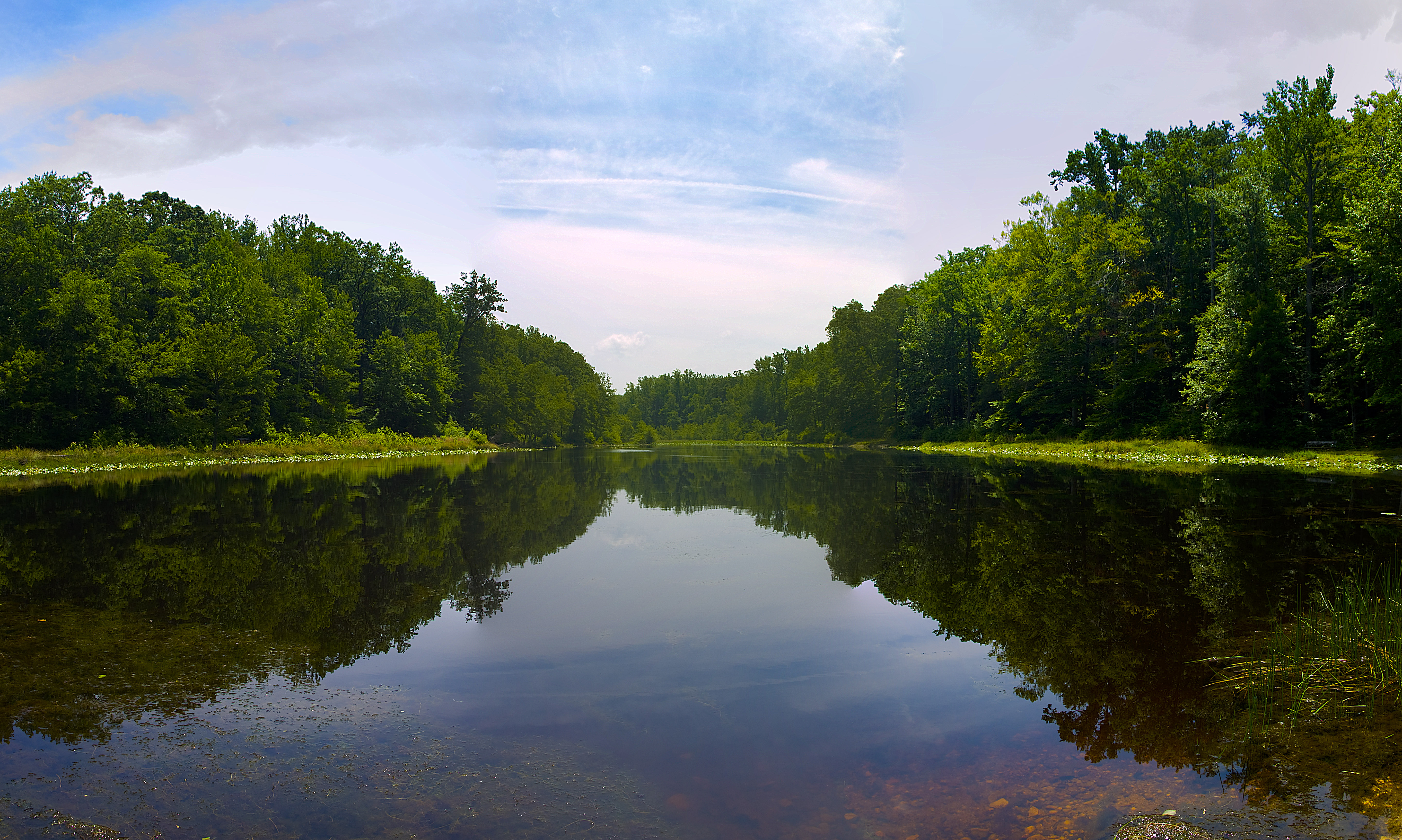 A picture of the pond at Cedarville State Forest in Waldorf, Maryland